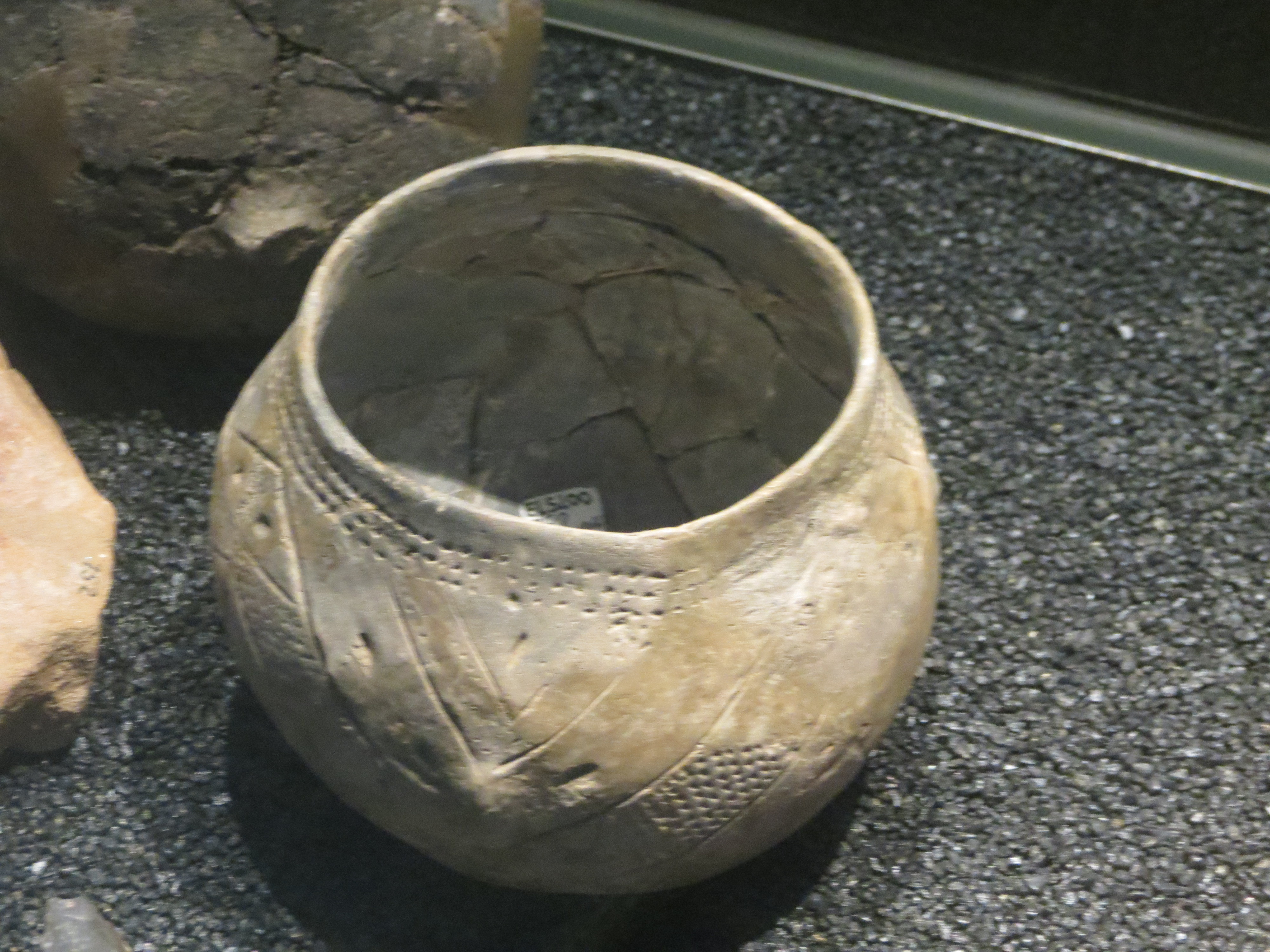 Linear Pottery Vessel, place of discovery: Elsloo Limburg, The Netherlands, exhibited in the Rijksmuseum van Oudheden, Leiden, The Netherlands.